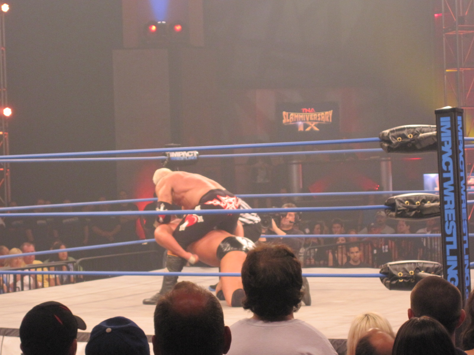 Sunday, June 12, 2011. Universal Orlando